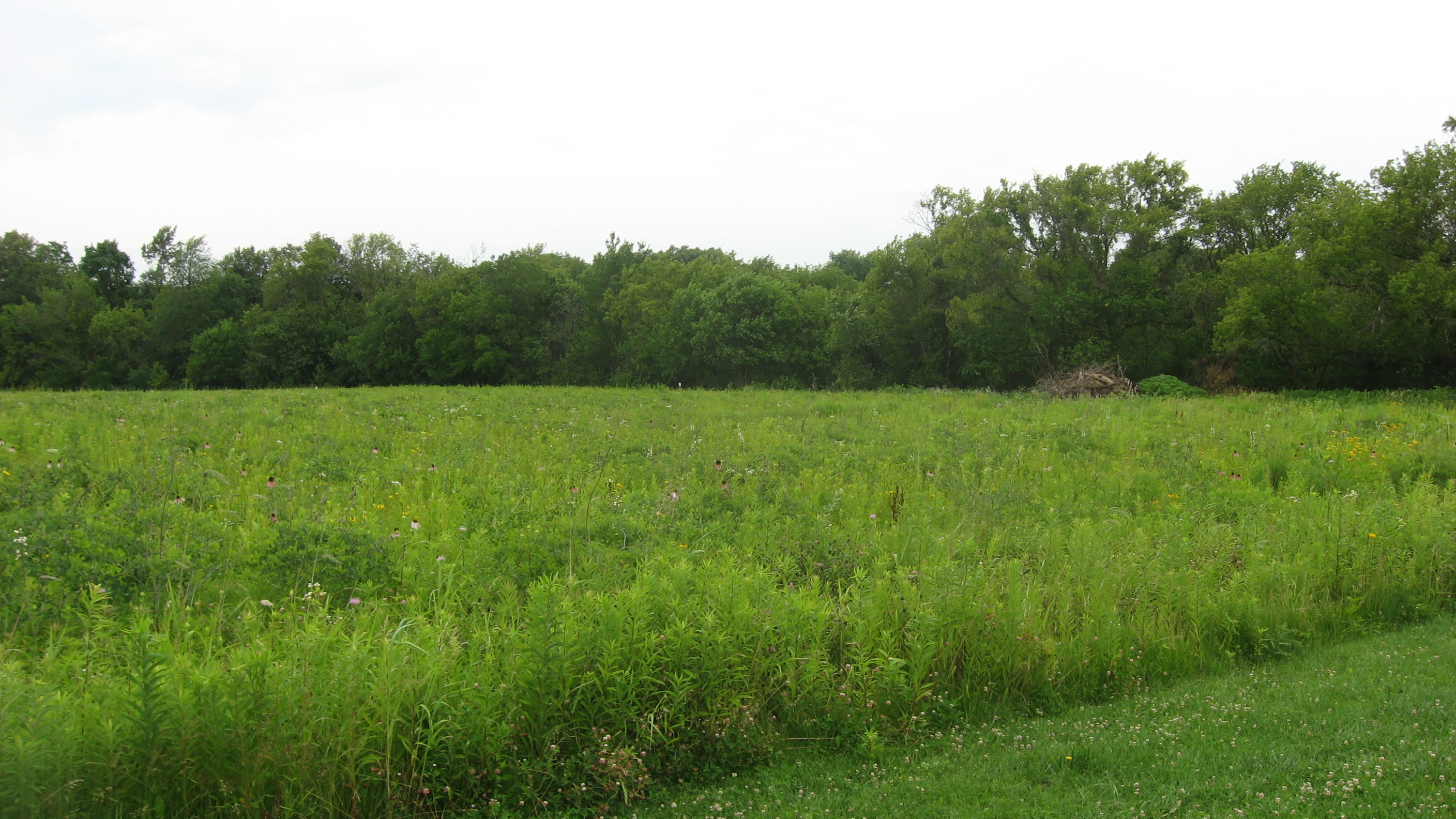 Overview of the Wapello Land and Water Reserve, located along the western side of Illinois Route 94 south of Hanover in Hanover Township, Jo Daviess County, Illinois, United States. Much of the reserve, including the area pictured here, is part of the John Chapman Village Site, a significant archaeological site that is listed on the National Register of Historic Places.